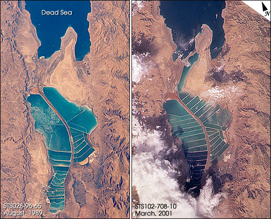 Satellite image salt evaporation ponds of Dead Sea - Israel - Jordan